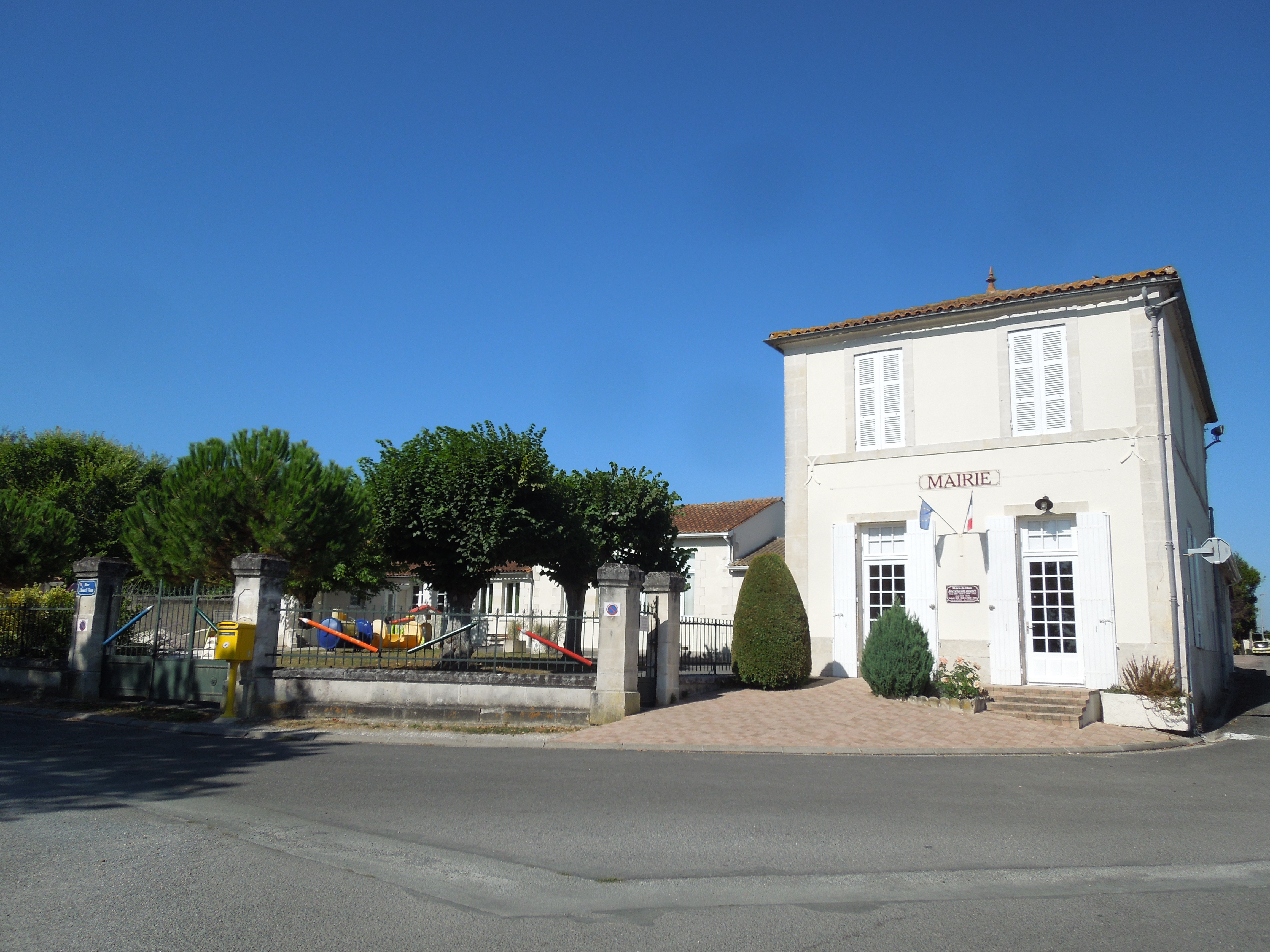 The mairie of Clam, Charente-Maritime